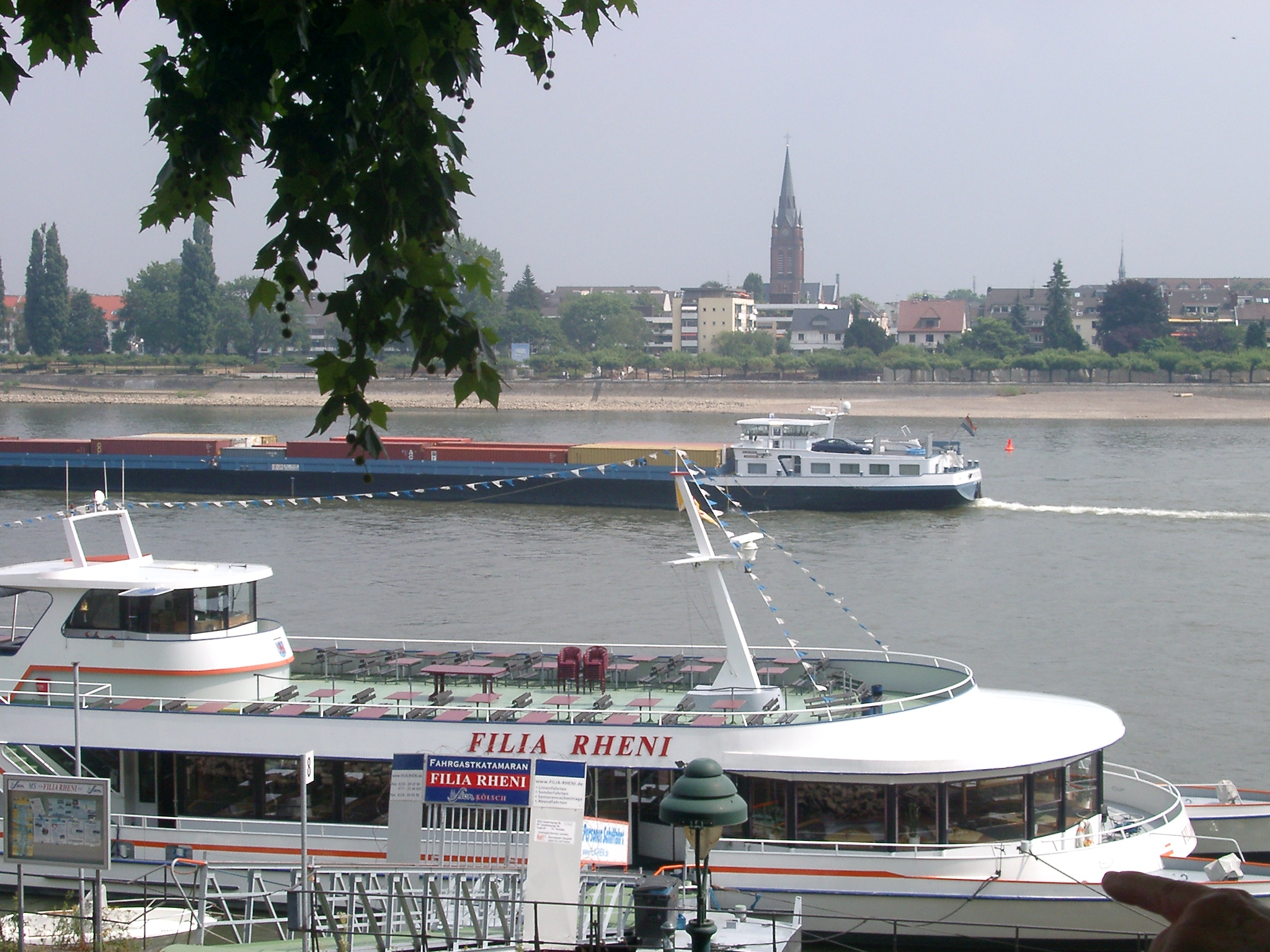 Bonn, Rhineland, river Rhine with boat "Filia Rheni" at "alter Zoll", view direction of Beuel